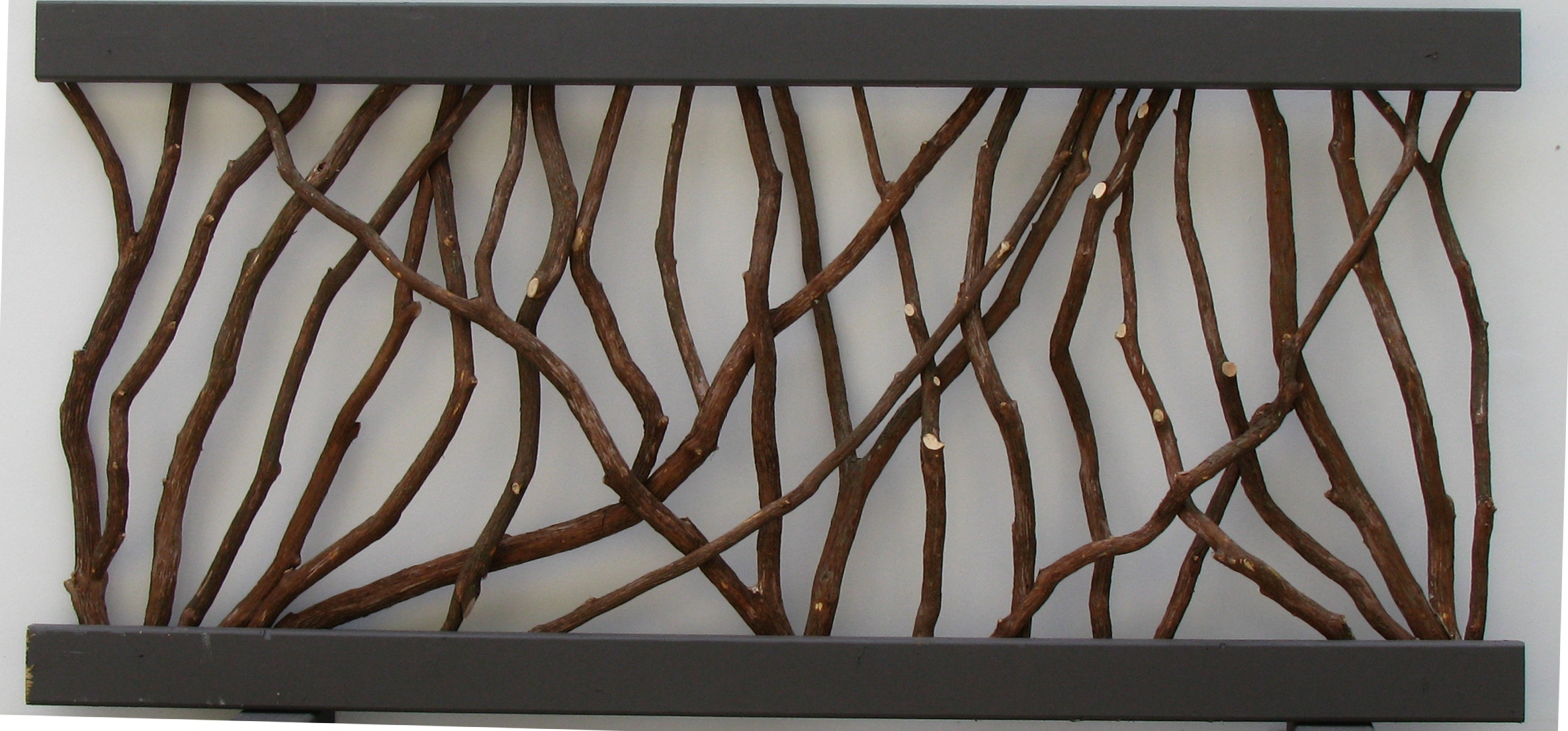 This rustic wood railing is made with branches from the mountain laurel tree by master craftsmen in the Smoky Mountains.